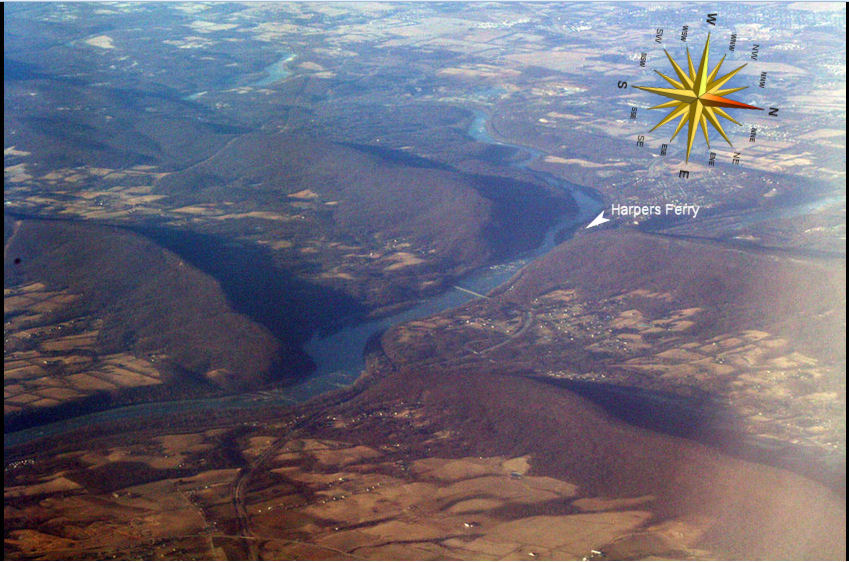 Description by Jstuby: " Oblique air photo of the Potomac River flowing through water gaps in the Blue Ridge Mountains. Virginia on the left, Maryland on the right, West Virginia in upper right, including Harpers Ferry (partially obscured by Maryland Heights) at the confluence of the Potomac and Shenandoah Rivers, and Charles Town at top. U.S. Route 340 runs westward up the middle of the photograph, from Brunswick, Maryland to Charles Town. Facing southwest. Taken Jan 17, 2009. Light color at right is glare on airplane window glass."